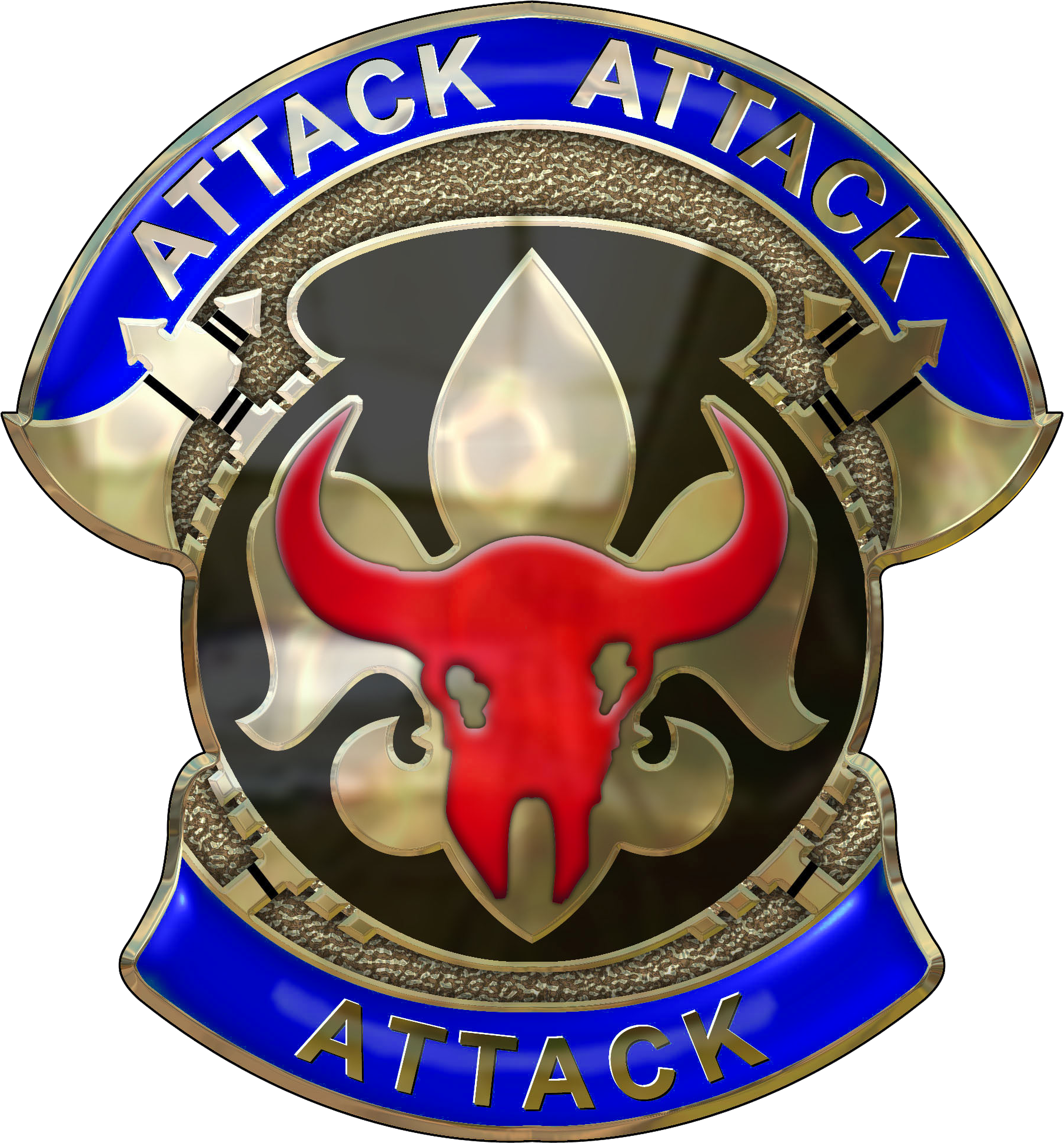 This is the 34th Infantry Division's Distinctive Unit Insignia (DUI). It is worn centered over he flash of the Army's beret. It is also worn on the shoulders of the dress uniform Note for previous version on Wiki: Original created by the Institute of Heraldry. Incorrectly colored scroll on the top and bottom has been adjusted to correct tint of blue. Sources: 1. The one I wear everyday. 2.